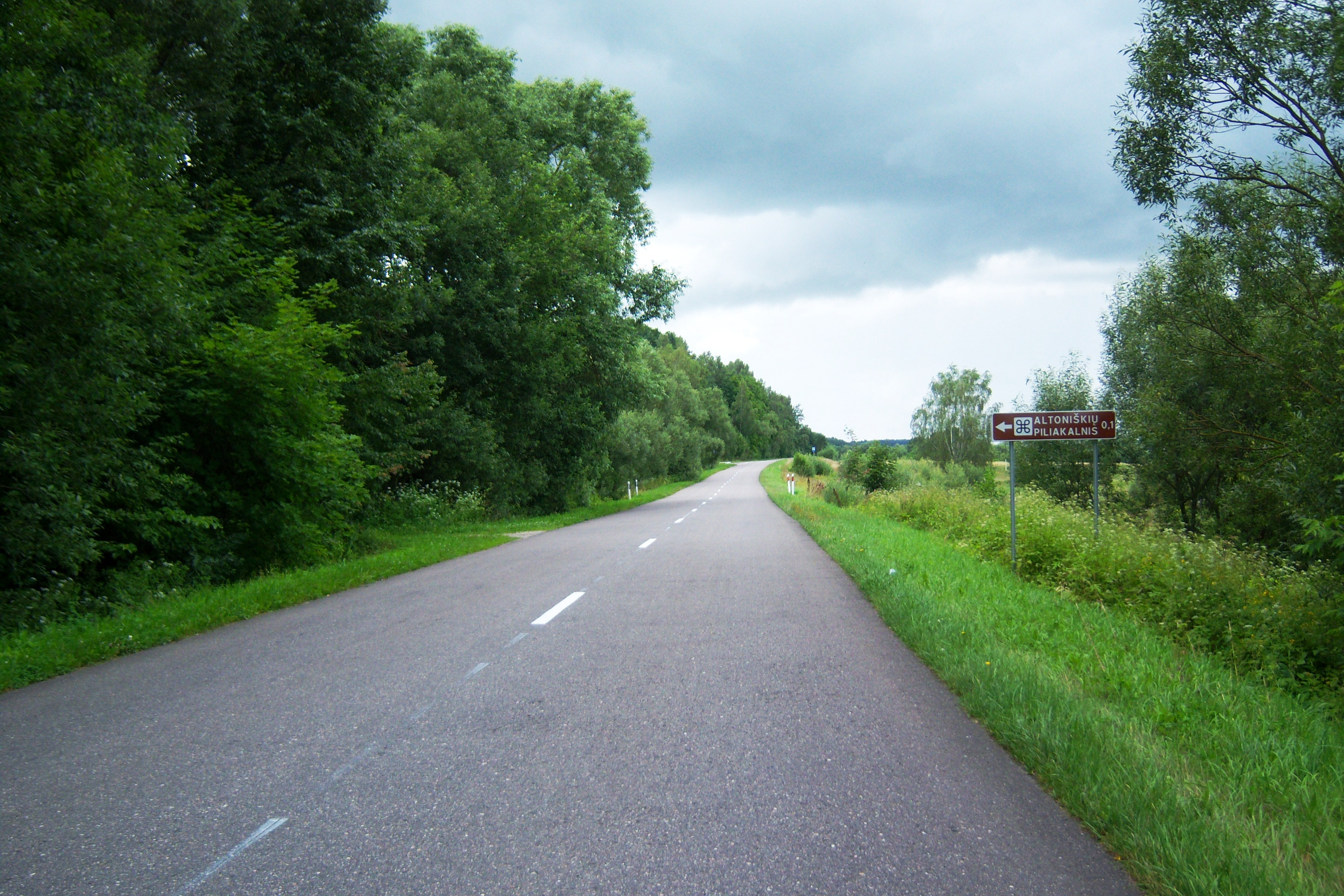 Sign to Altoniškiai hillfort, Kaunas district, Lithuania